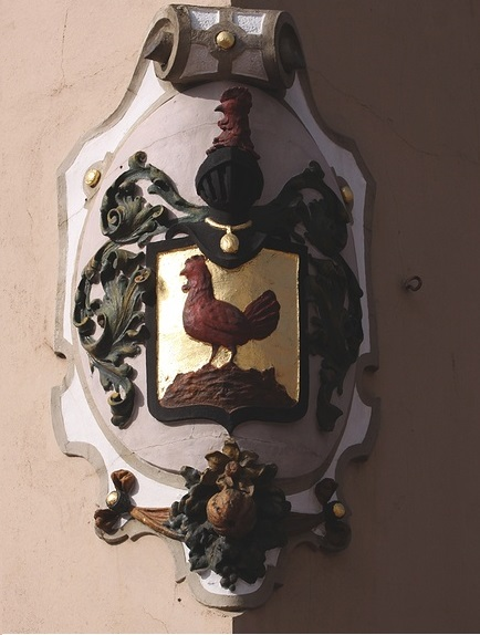 Carved and painted arms of the Barons von Hahnsberg